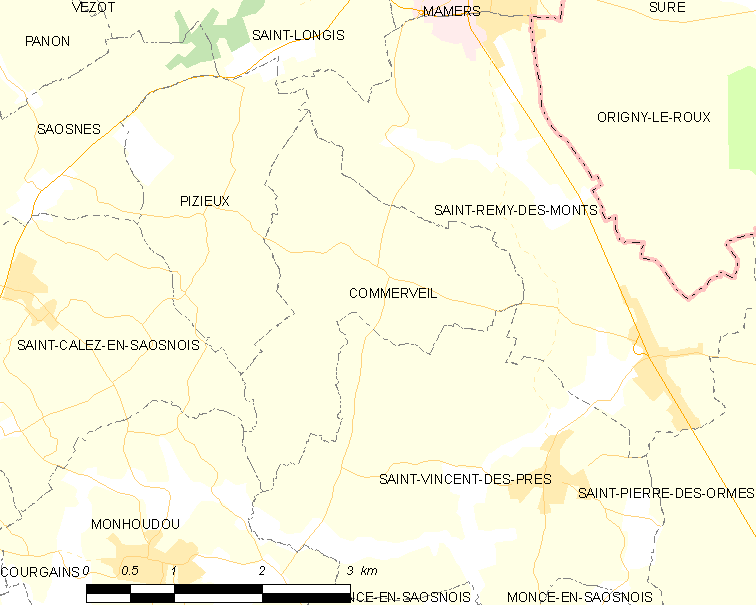 Map of French municipality